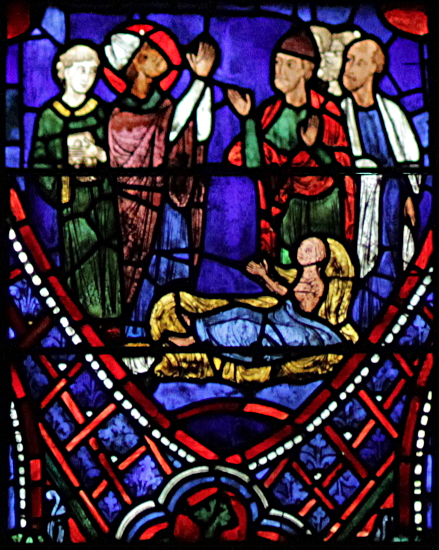 Fragment of File:Chartres 36 -Corrected.jpg - Life of St Apollinaris